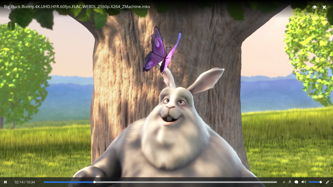 Screenshot of the film Big Buck Bunny on Popcorn Time.